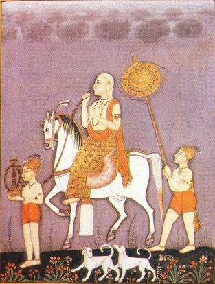 Shahu Sambhaji Raje Bhosale Chhatrapati Maharaj (1682–1749 CE) was the fourth Emperor of the Maratha Empire created by his grandfather, Chhatrapati Shivaji, and was officially the Raja of Satara (now in Maharashtra, India). More popularly known as Chattrapati Shahuji, he came out of captivity by the Mughals and survived a civil war to gain the throne in 1707.